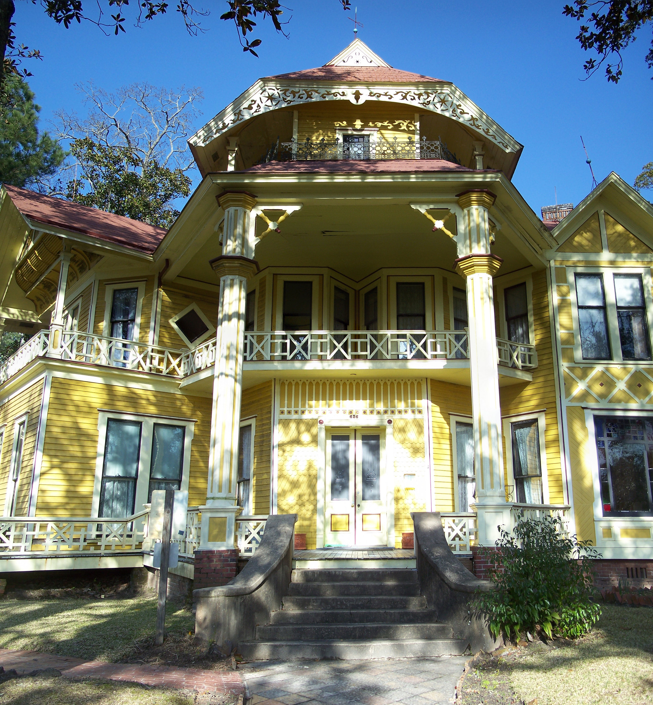 Thomasville, Georgia: Lapham-Patterson House.